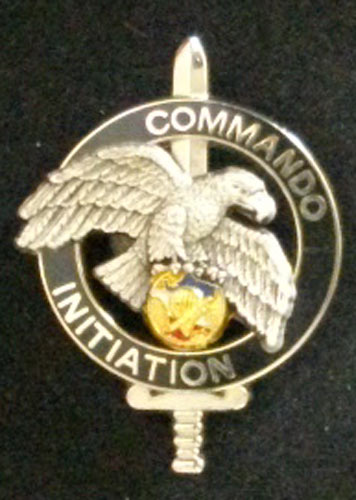 Initiation commando insignia patent (France).